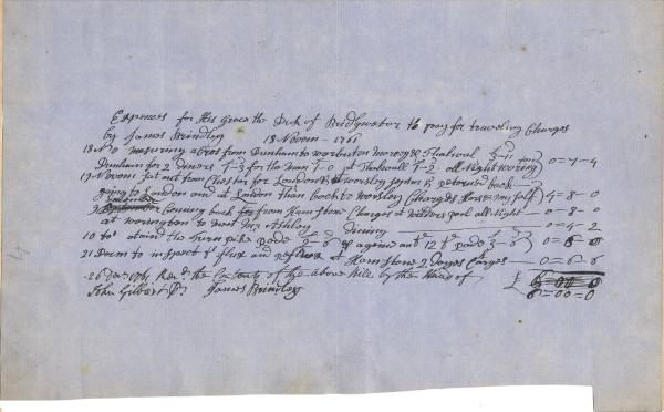 A document dated 18 November 1761 showing the travelling expenses of James Brindley, signed by Brindley and James Gilbert.